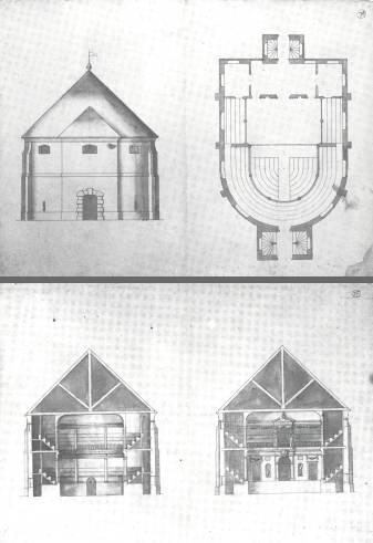 Plans of a theatre by Inigo Jones, believed to be ca. 1616–1618, and somewhat more speculatively believed to be for the Cockpit Theatre (also known as the Phoenix), Drury Lane, London.